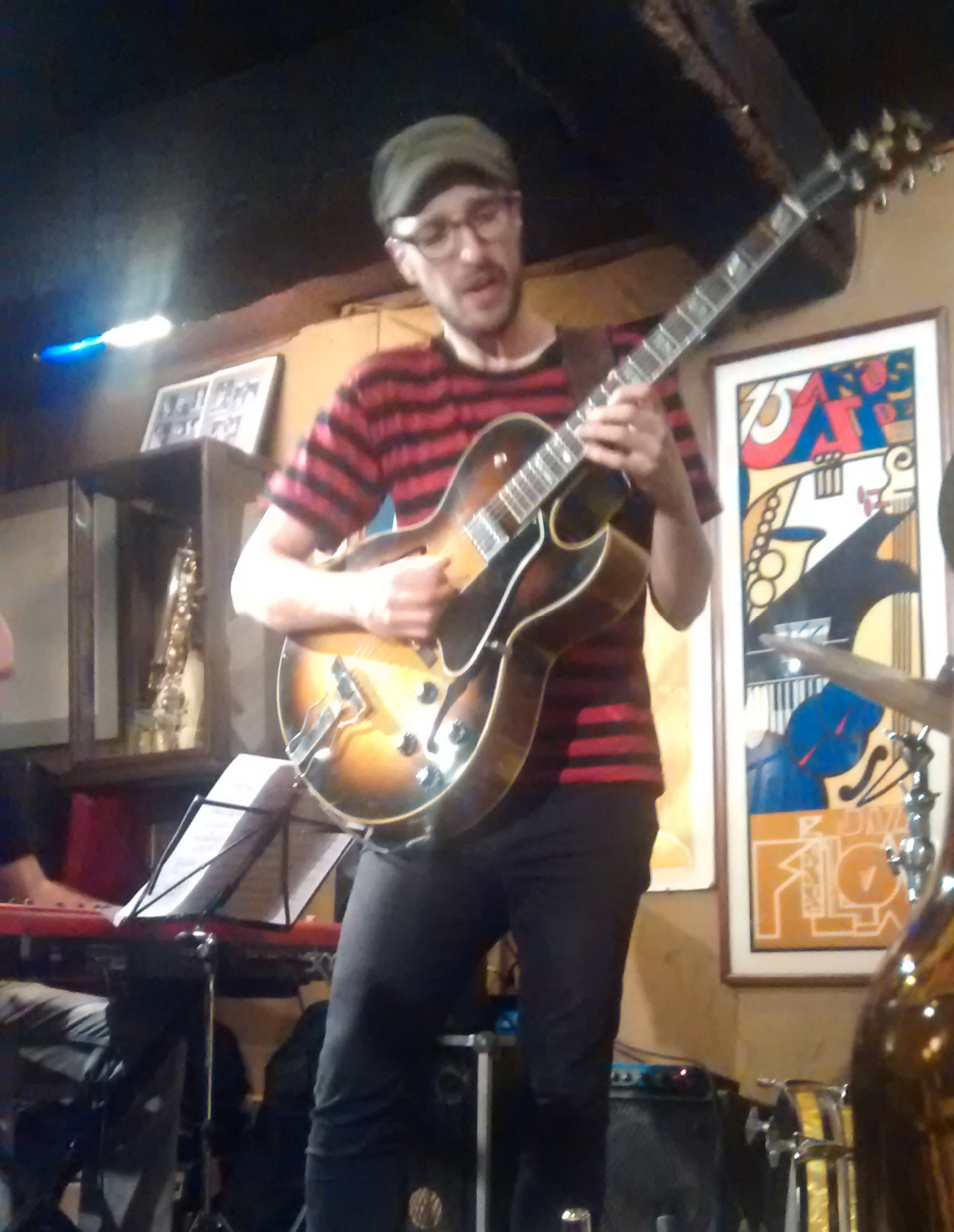 Jazz guitarist Virxilio da Silva playing on the Jazz Filloa in a Coruña